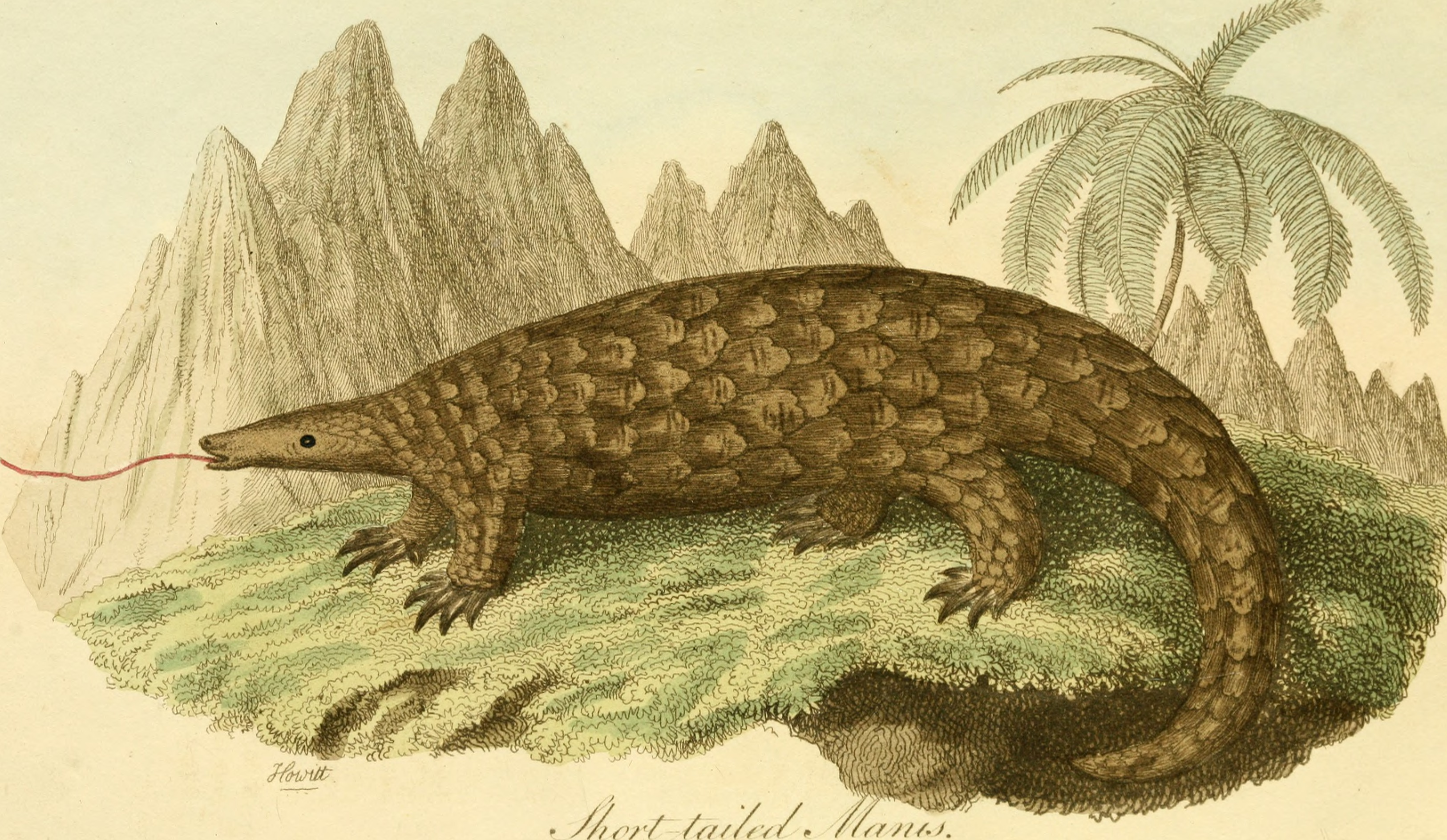 Title: A companion to Mr. Bullock's London Museum and Pantherion : containing a brief description of upwards of fifteen thousand natural and foreign curiosities, antiquities, and productions of the fine arts, collected during seventeen years of arduous research, and at an expense of thirty thousand pounds : and now open for public inspection in the Egyptian Temple, just erected for its reception, in Piccadilly, London, opposite the end of Bond-Street Year: 1812 (1810s) Authors: Bullock, W. (William), fl. 1808-1828; Howitt, Samuel, 1765?-1822, ill; Wells, John West, 1907- , former owner. DSI Subjects: London Museum (1812-1819); Zoology Publisher: (London) : Printed for the proprietor Text Appearing Before Image: s ^ Text Appearing After Image: '